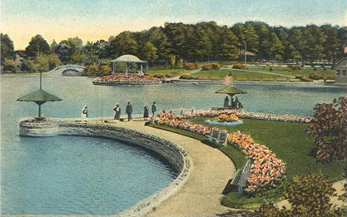 Hiawatha Lake in Onondaga Park, Syracuse, New York. Formerly called Wilkinson Reservoir.